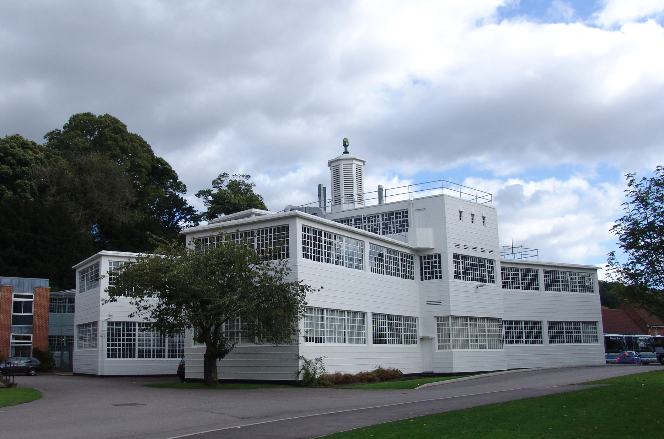 Marlborough College Science Laboratories, an early example of shuttered concrete construction and a Listed Building.